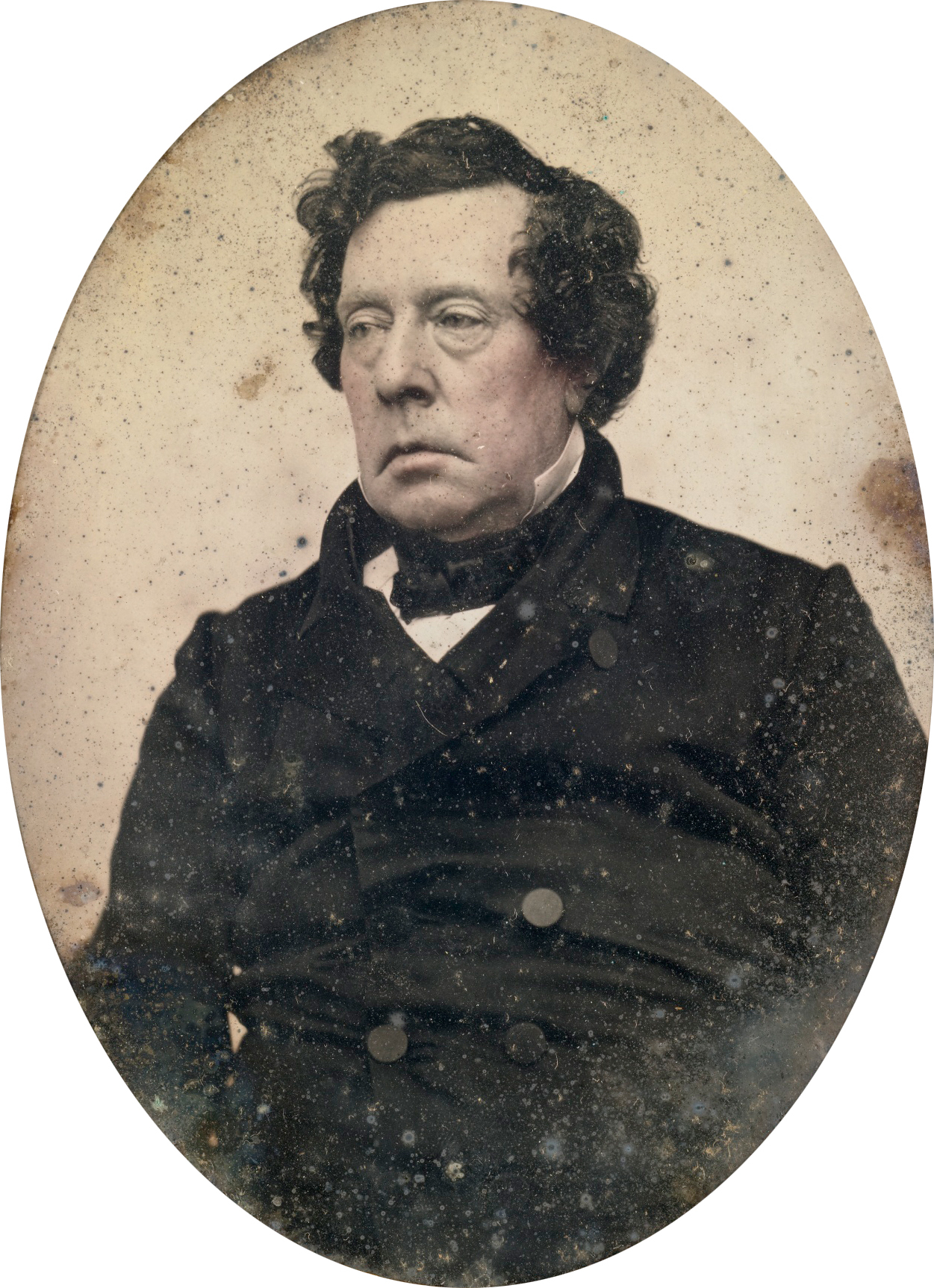 Matthew C. Perry. Half-plate daguerreotype, ‘Beckers & Piard, 264 Broadway’ stamped on the mat, cased, 1855-56